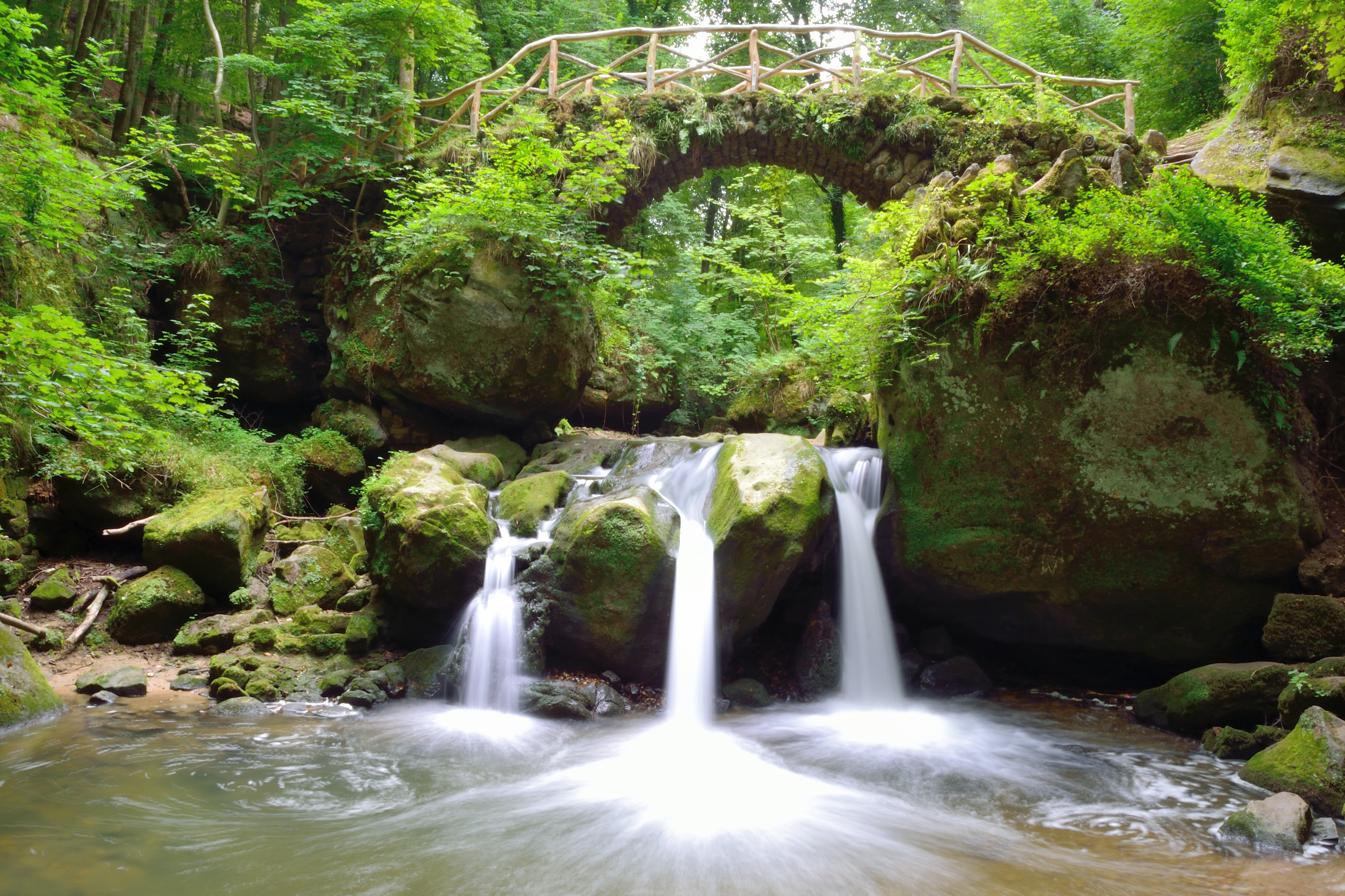 The Schéissendëmpel waterfall in the valley of the Ernz noire in the Mullerthal region in Luxembourg.